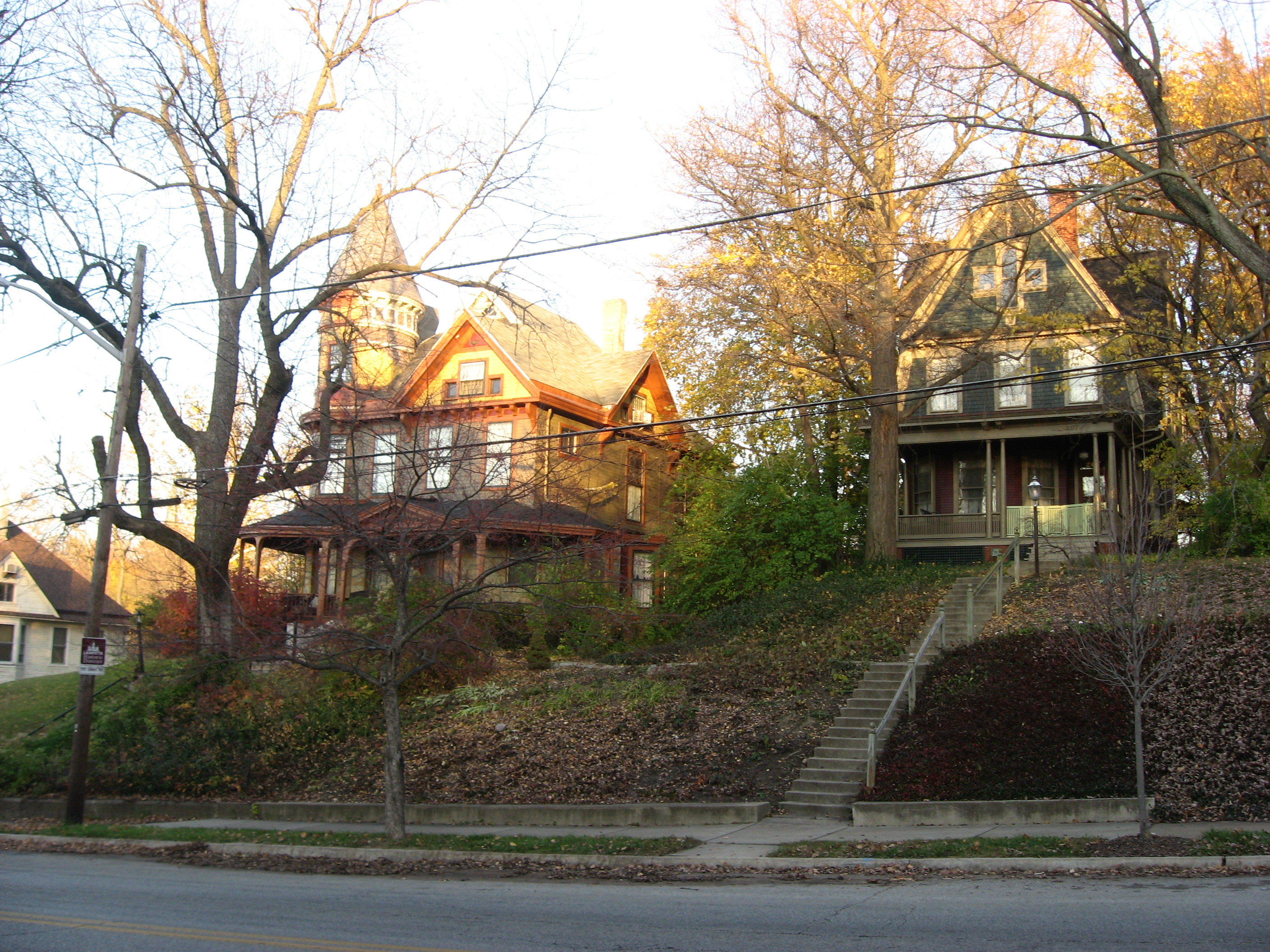 Houses on the eastern side of the 200 block of S. Ninth Street in Lafayette, Indiana, United States. This block is part of the Ninth Street Hill Neighborhood Historic District, a historic district that is listed on the National Register of Historic Places.